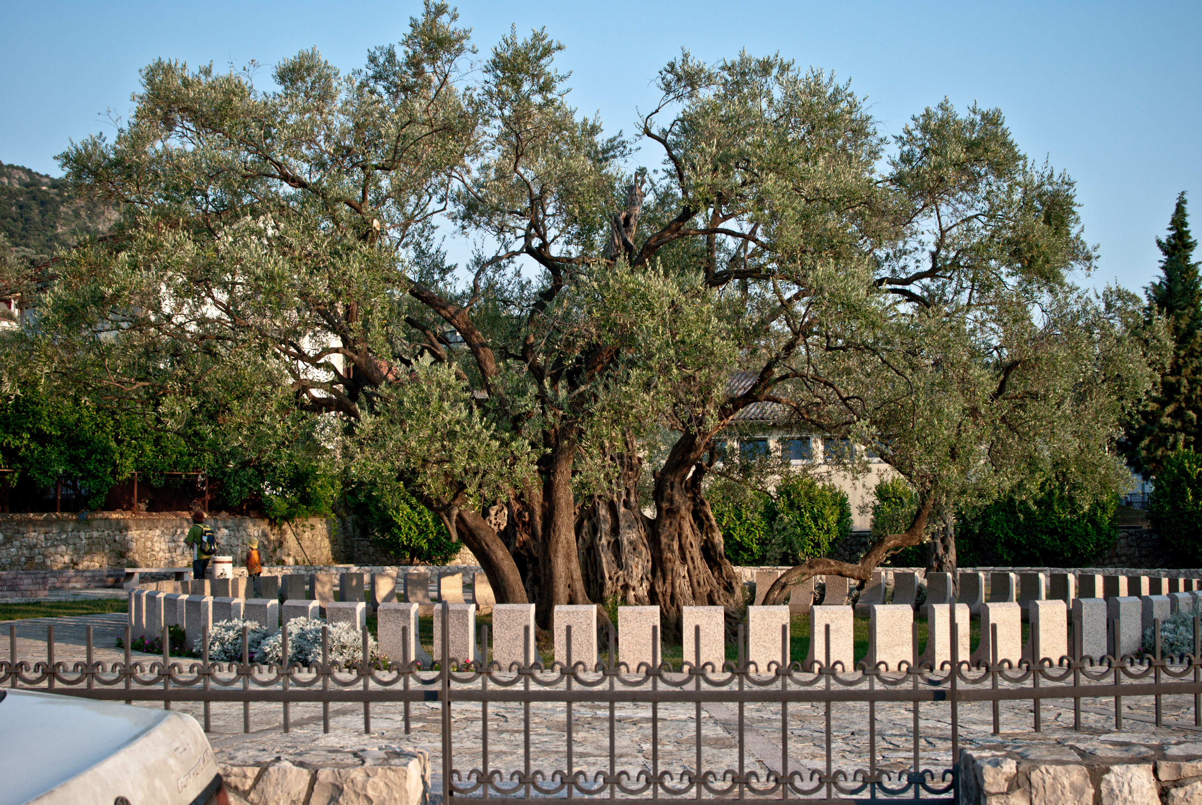 2000-years old olive-tree in Bar, Montenegro